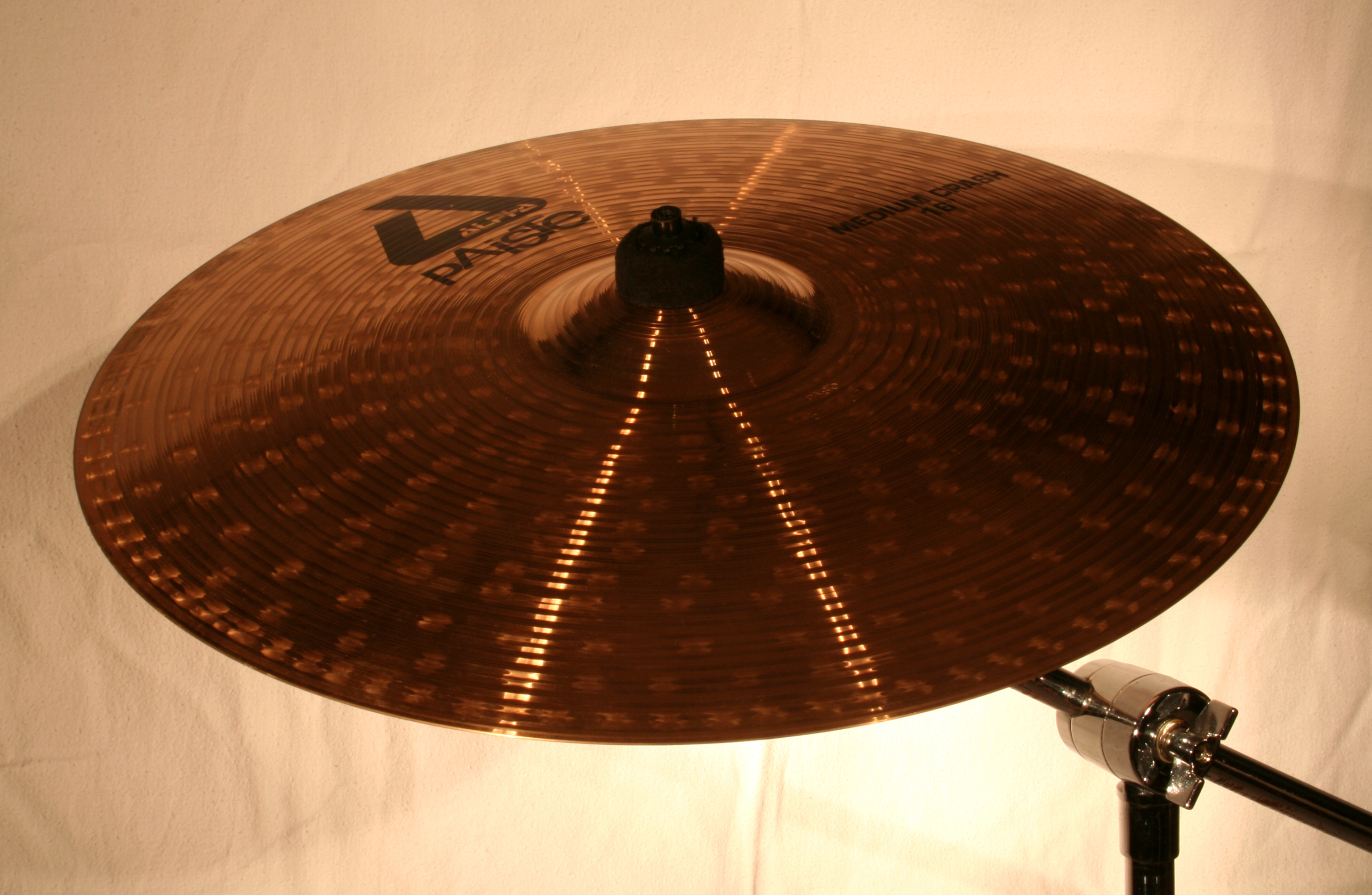 16 inches Crash Cymbal made by Paiste